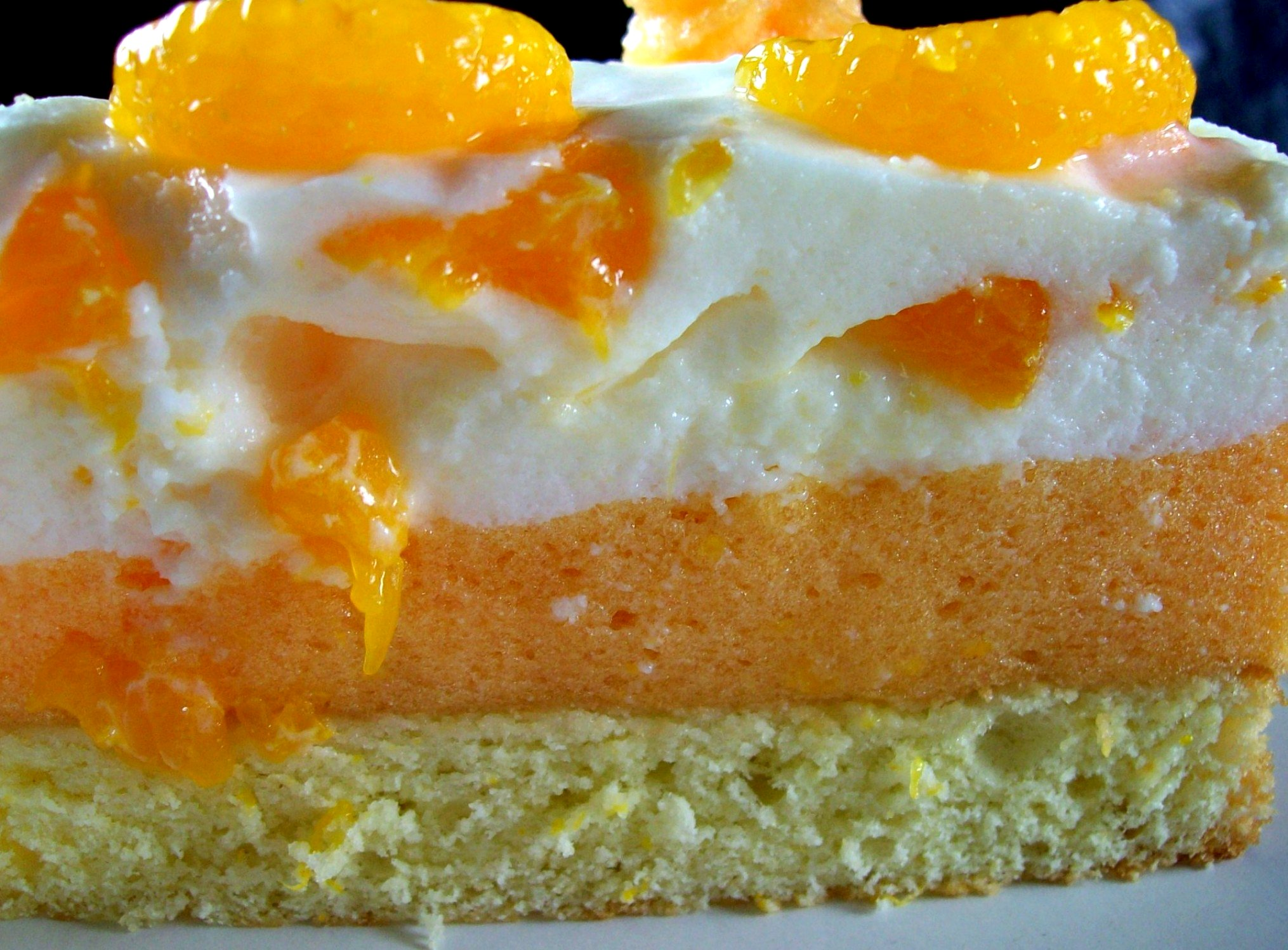 Manadrin cream cake.